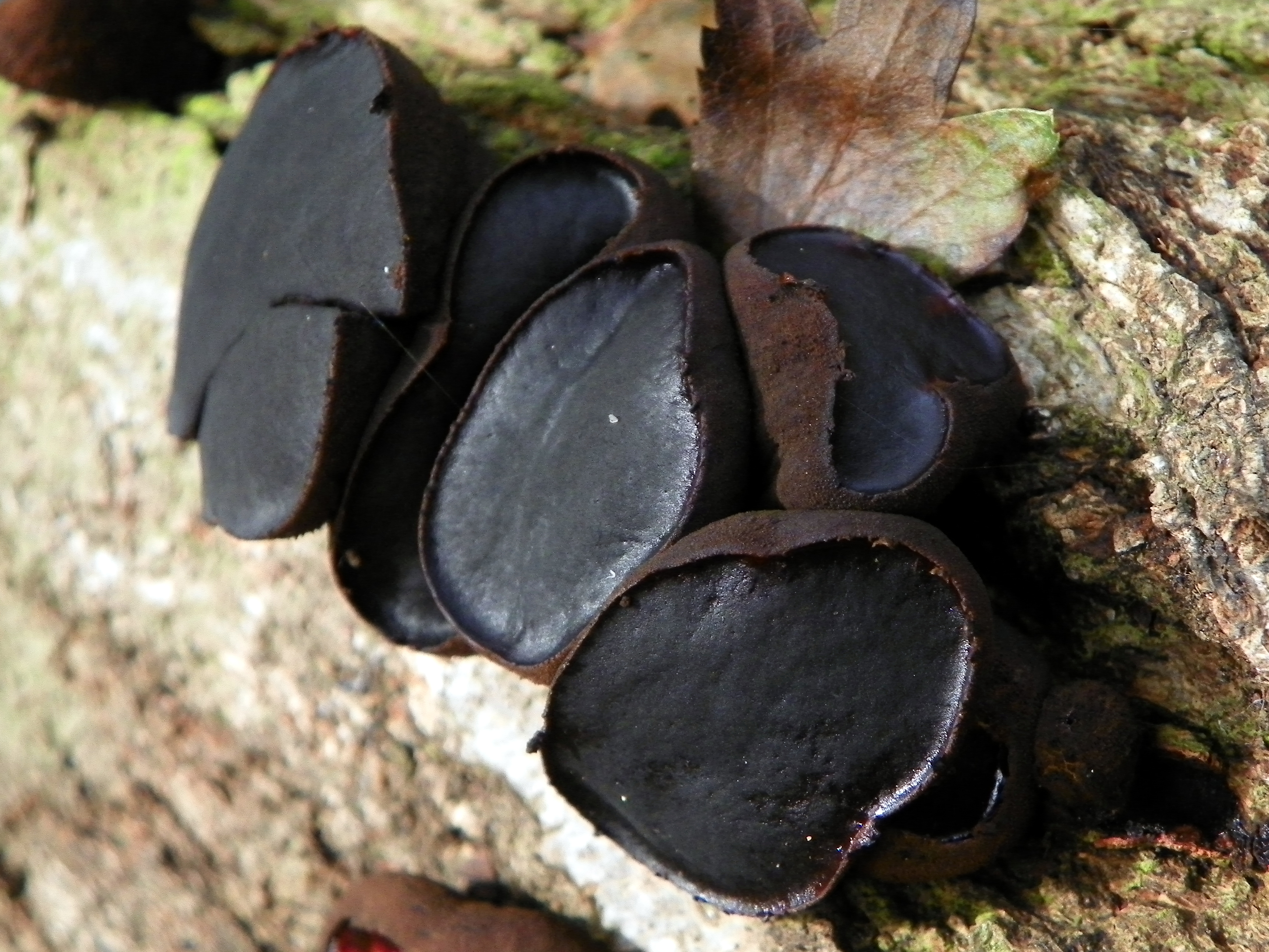 Black Bulgar (Bulgaria inquinans), Thirlmere Wood, Stevenage, Hertfordshire, 2 November 2012.